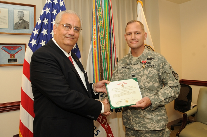 Col. David Moore, project manager of Battle Command, (right) received the Bronze Star from Mr. Dean Popps, Army acquisition executive, acting Assistant Secretary of the Army for Acquisition, Logistics and Technology, on Sept. 9 at the Pentagon.